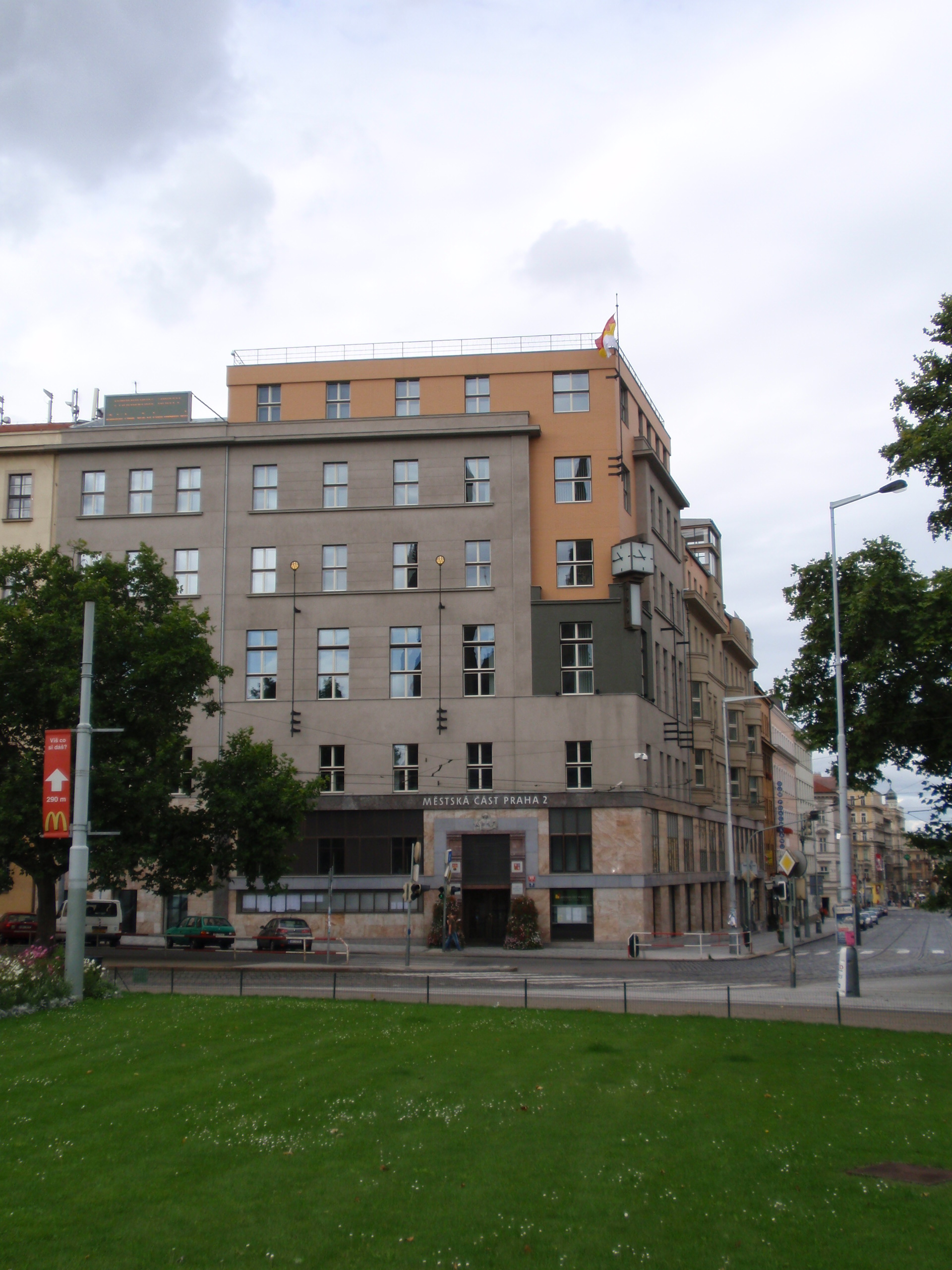 Townhall of Prague 2 municipality